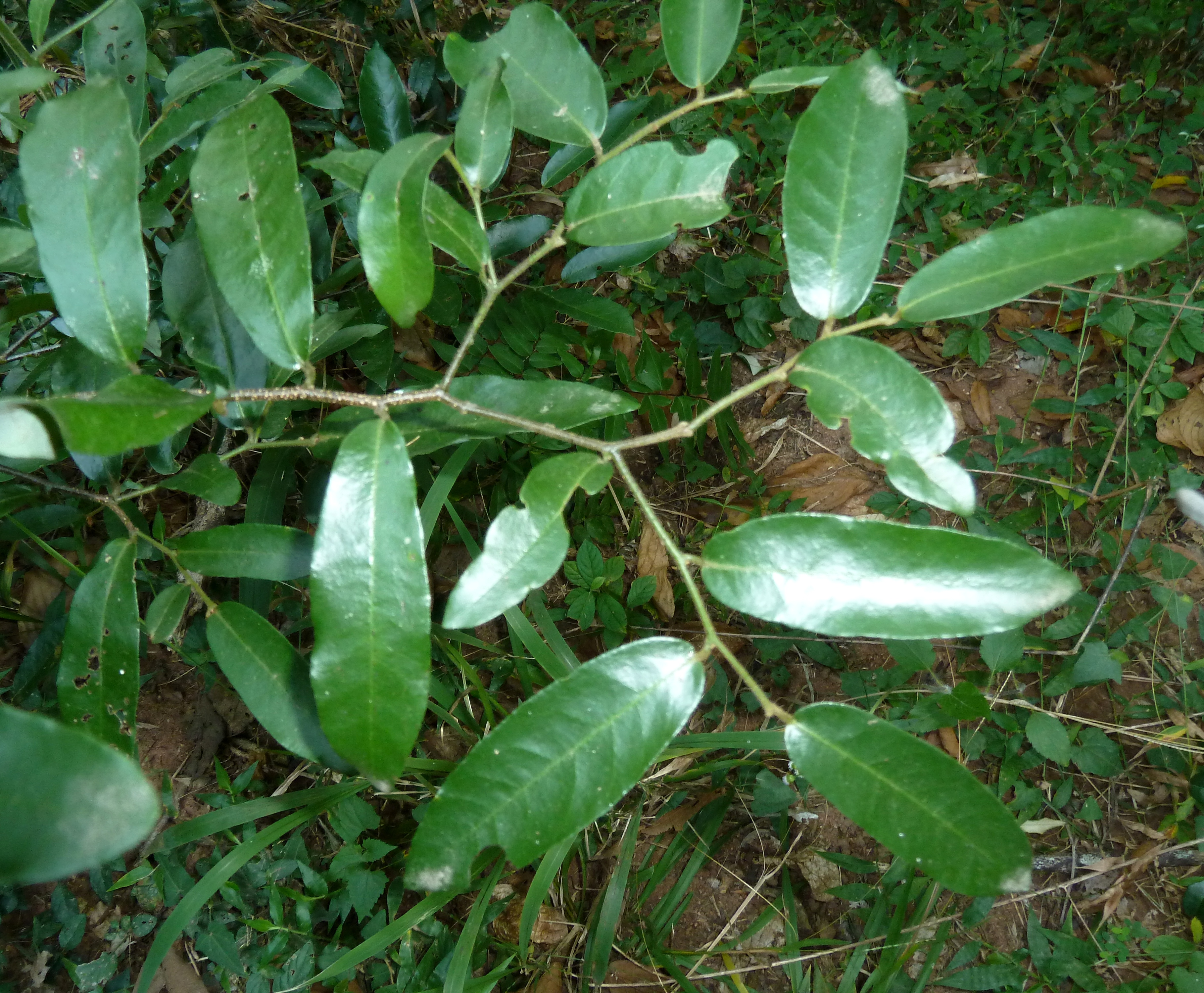 Foliage of a Dwaba-berry in Krantzkloof Nature Reserve, KwaZulu-Natal